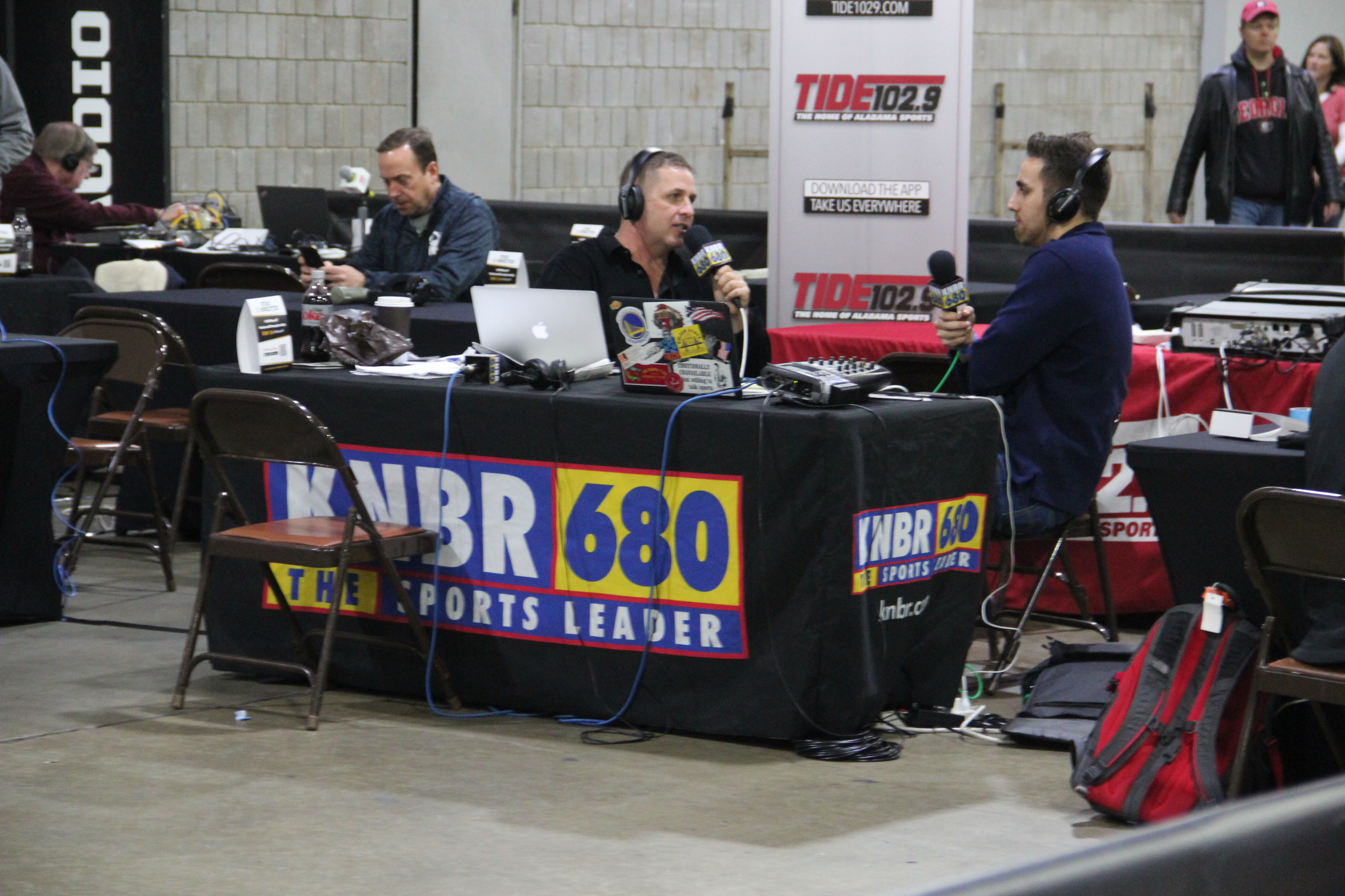 KNBR at the College Football Playoff National Championship Playoff Fan Central